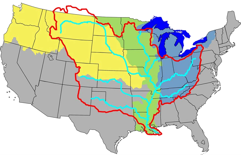 This graphic superimposes the area of jurisdiction of the Mississippi River Commission superimposed over USACE's Northwestern Division (yellow), the Mississippi Valley Division (green), and the Lakes and Rivers Division (blue).